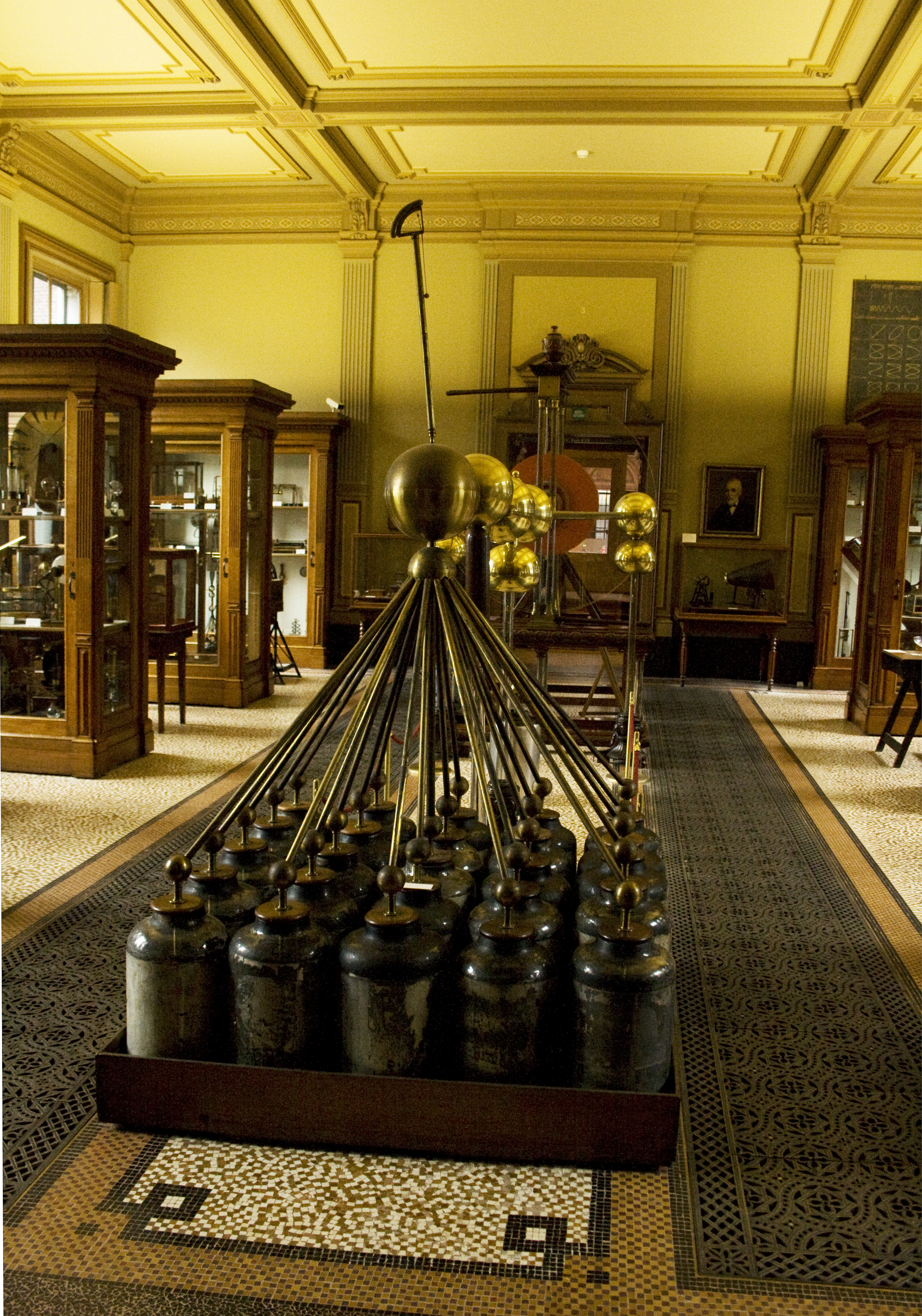 Instrument hall, Teylers Museum, Haarlem, Netherlands. The device in the center is a battery of Leyden jars, capacitors which store a large charge of static electricity.